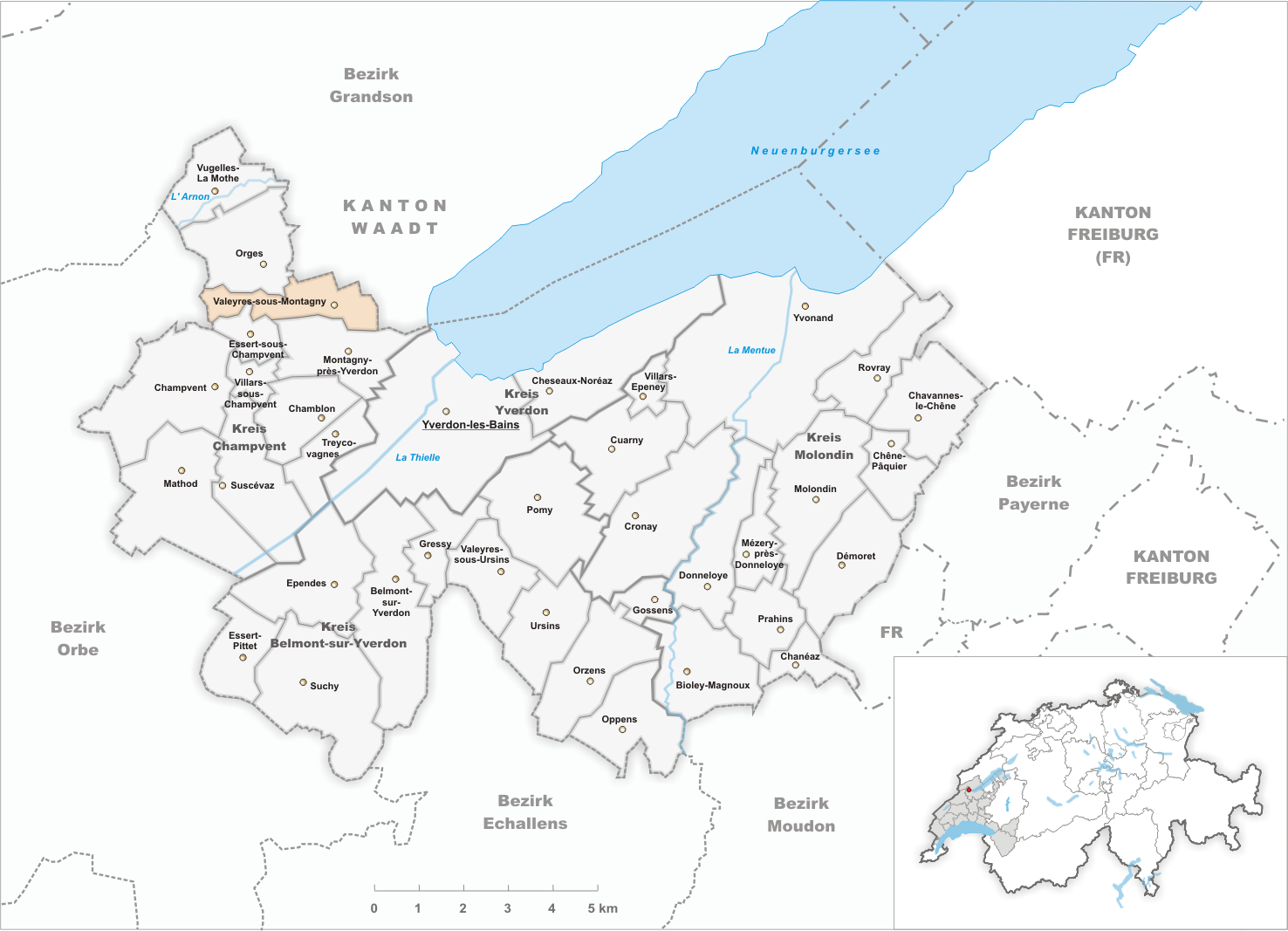 Municipality Valeyres-sous-Montagny